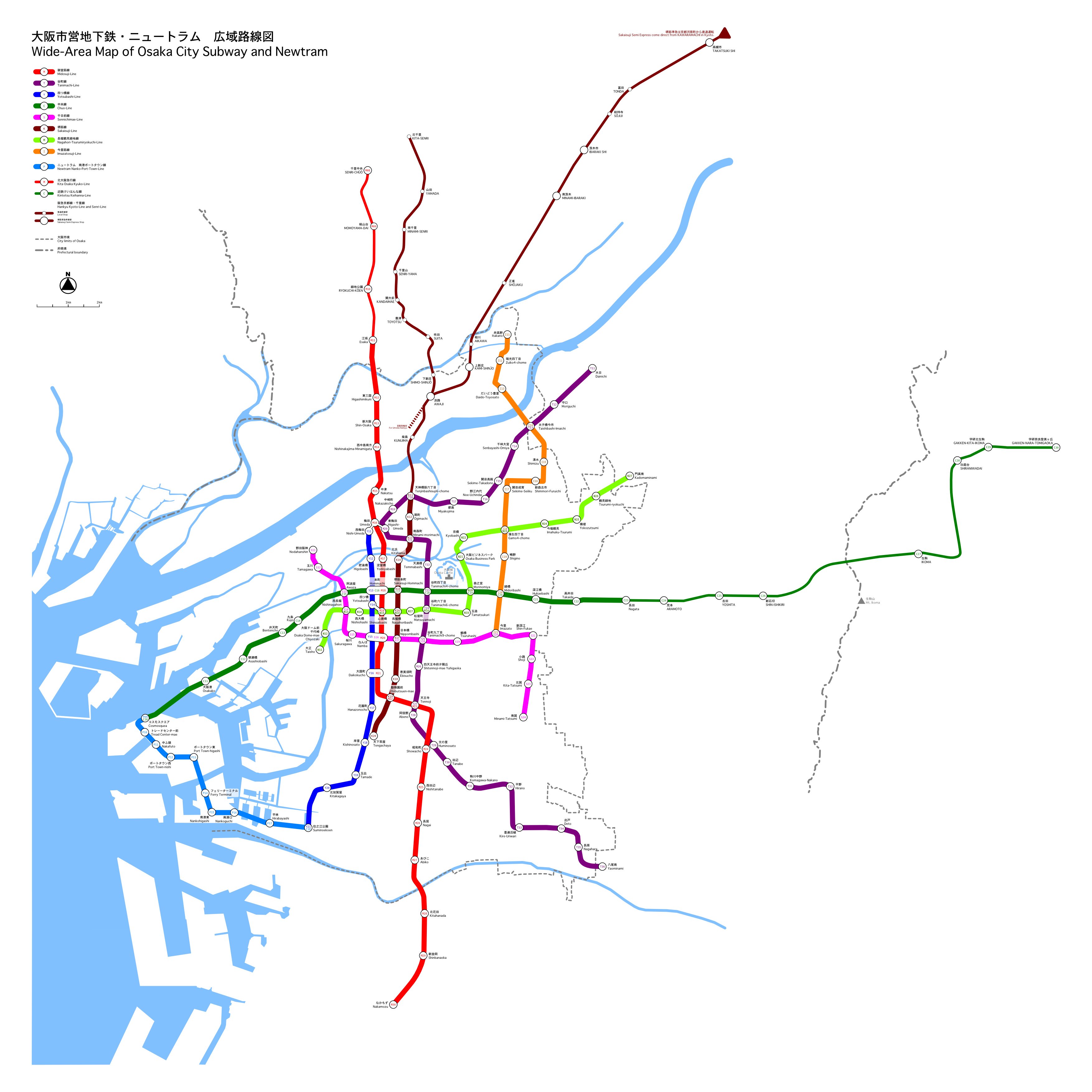 This is a wide-area map that presents Osaka city subway, Newtram and the going direction railways. (It is raster version, so it is low resolution.) ja: 大阪市営地下鉄・ニュートラム・相互乗り入れ路線を表した広域路線図（低解像度ラスタ画像）